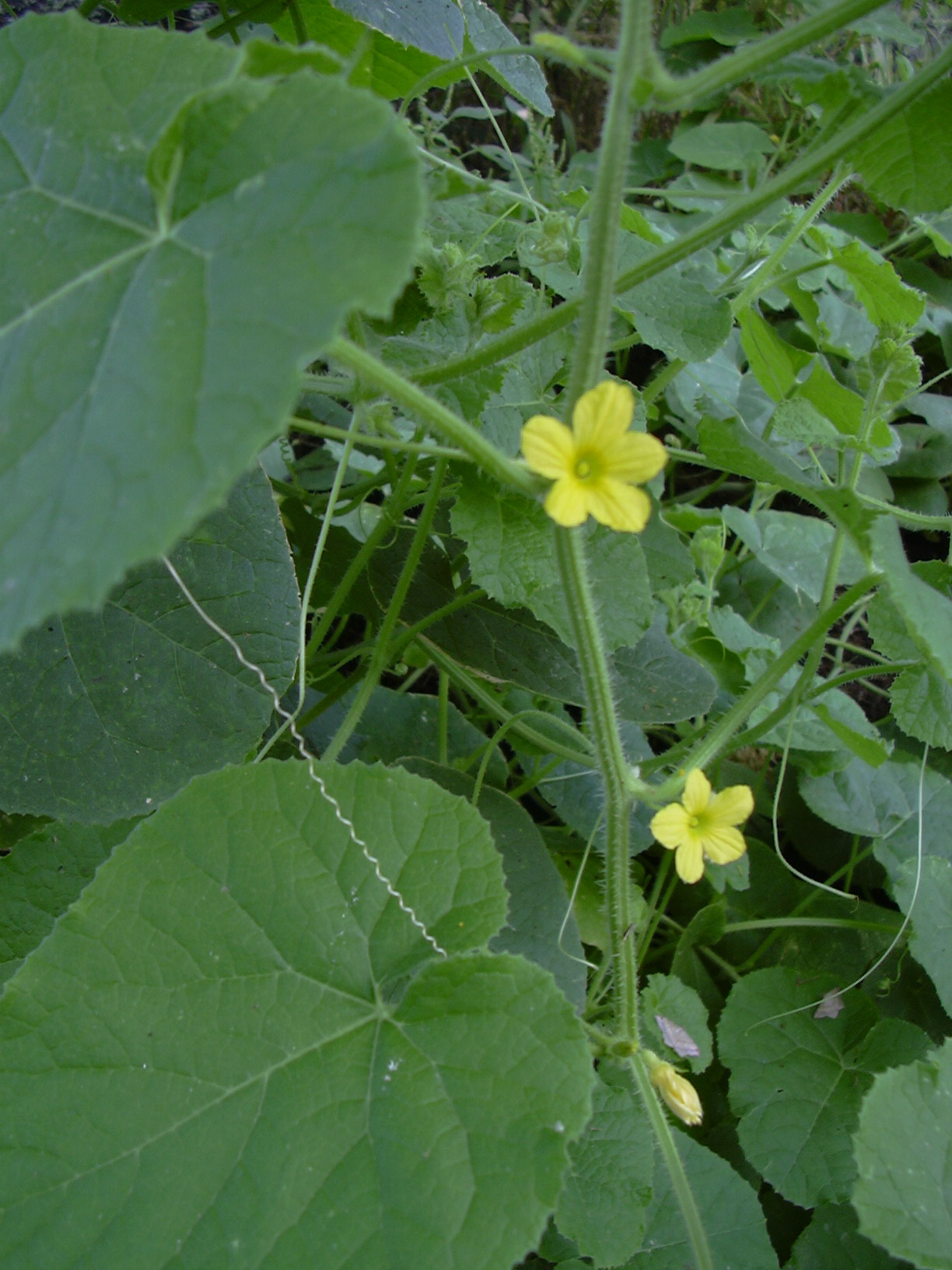 Cucumis dipsaceus (flower). Location: Maui, LaPerouse